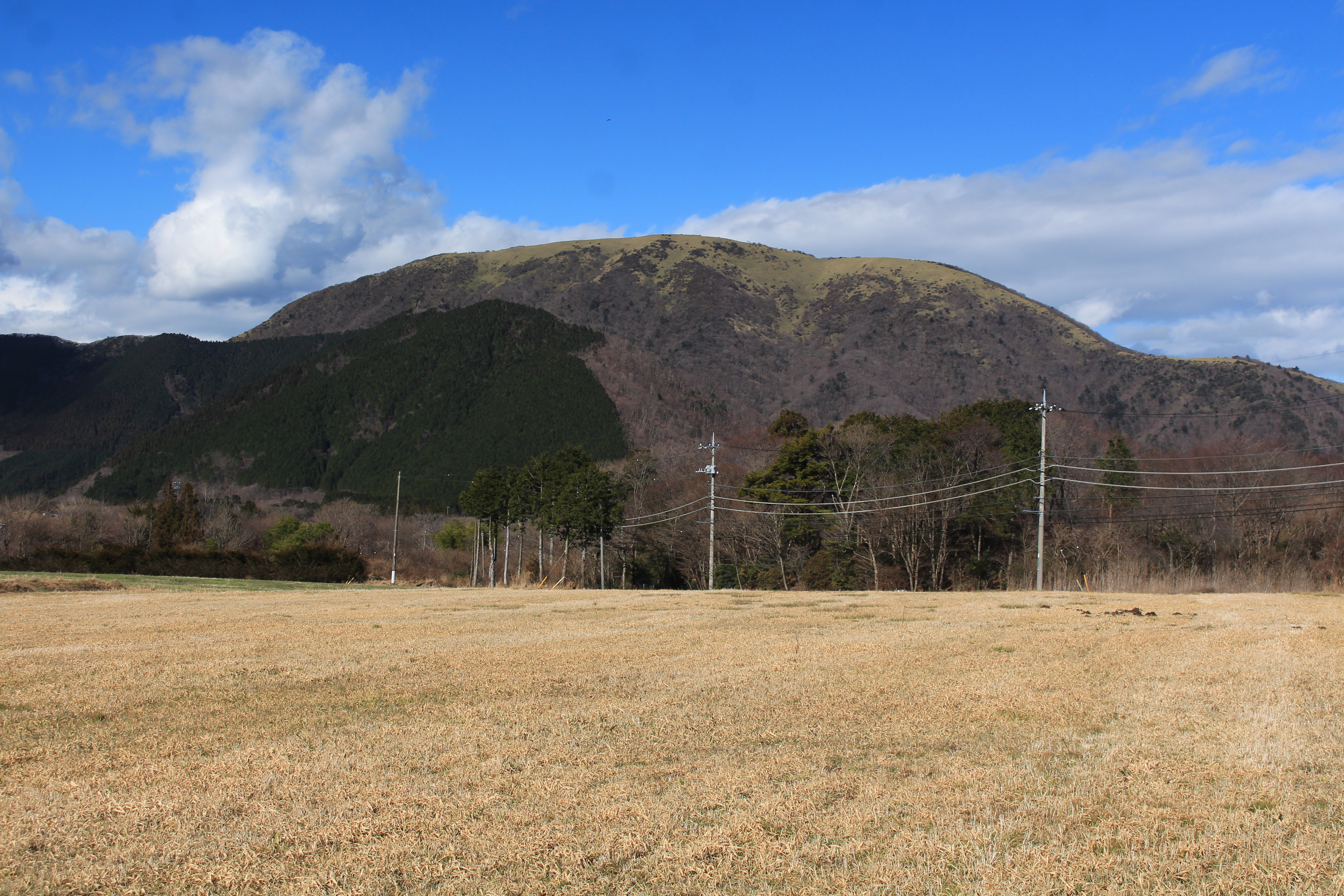 Mount Ryu of Tenshi Mountains in Japan.